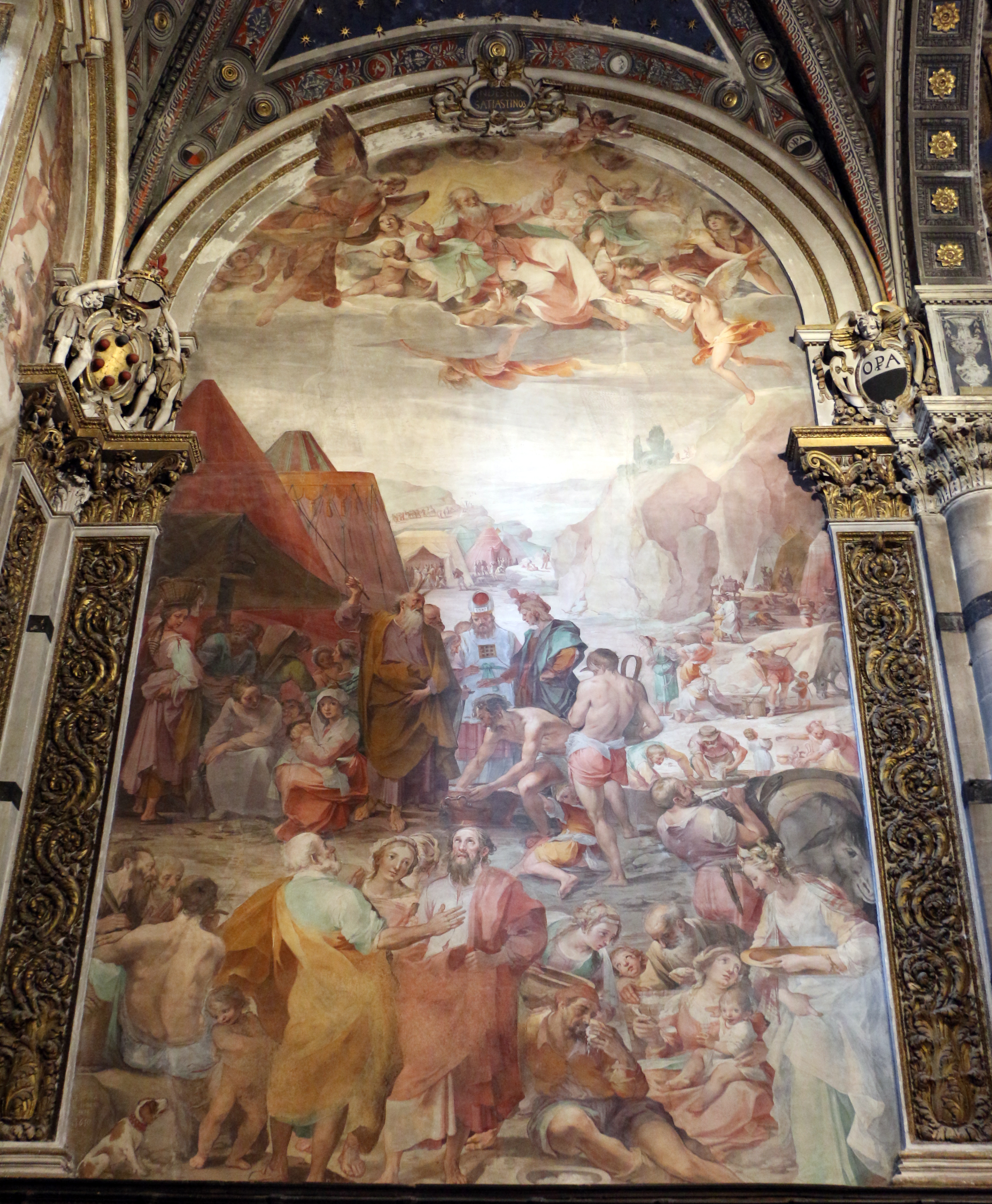 Cathedral (Siena) - Choir